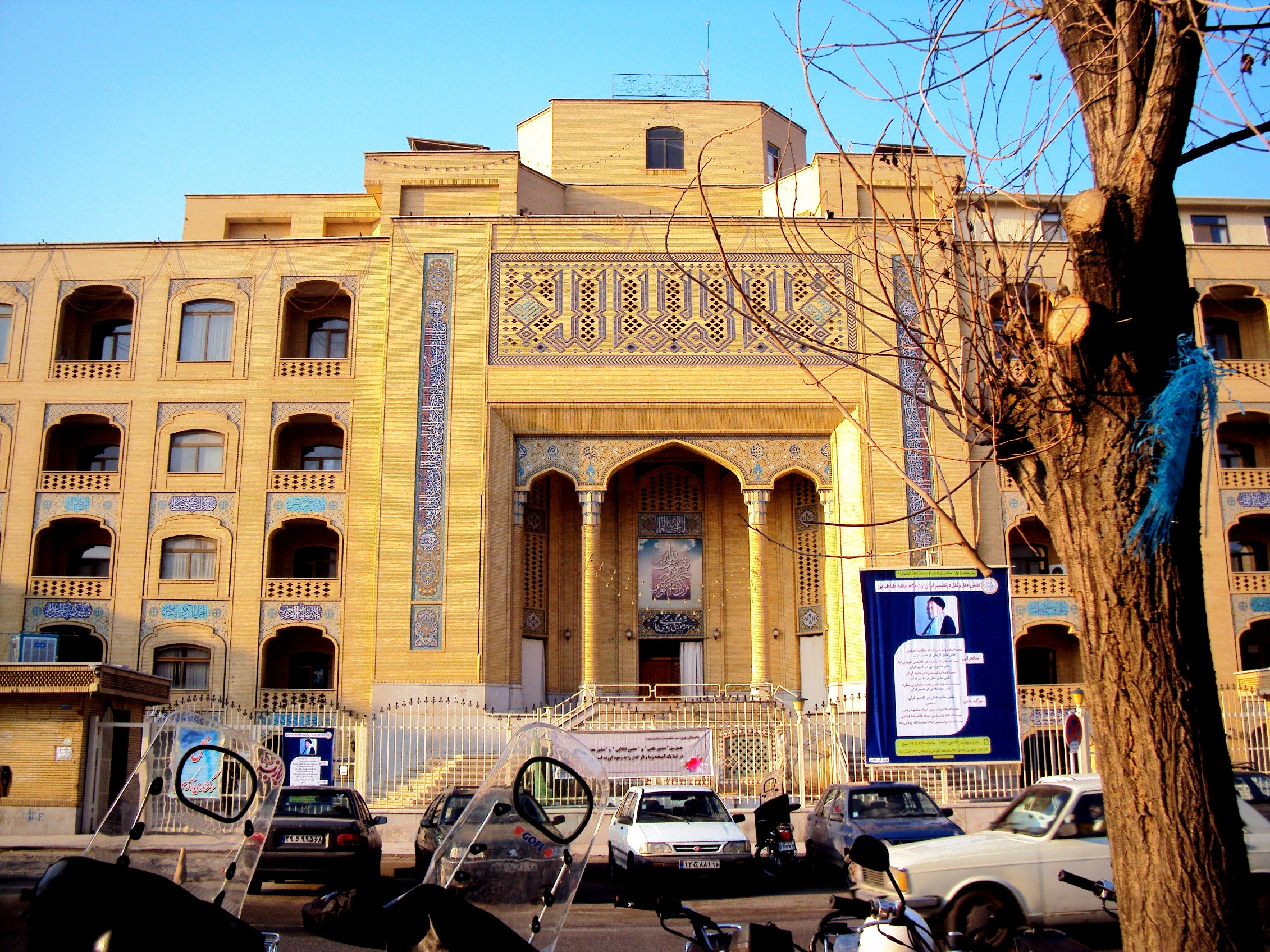 Imam Khomeini Educational & Research InsInstitute Qom موسسه آموزشی-پژوهشی امام خمینی، قم